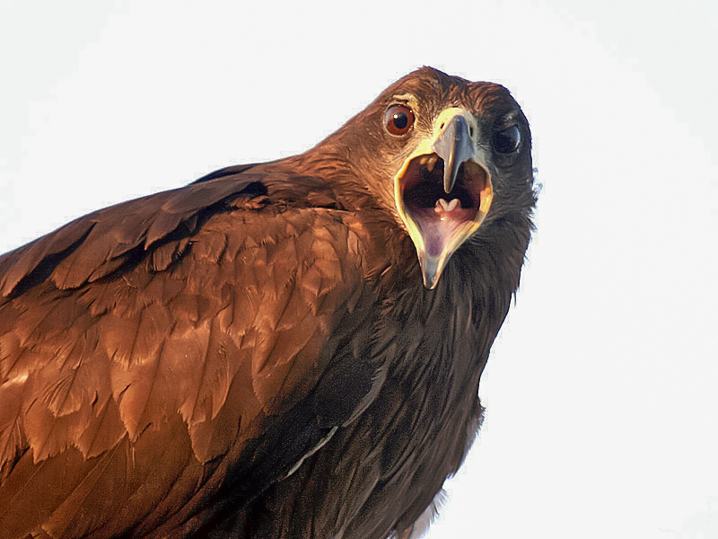 Black Kite Milvus migrans in Kolkata, West Bengal, India.